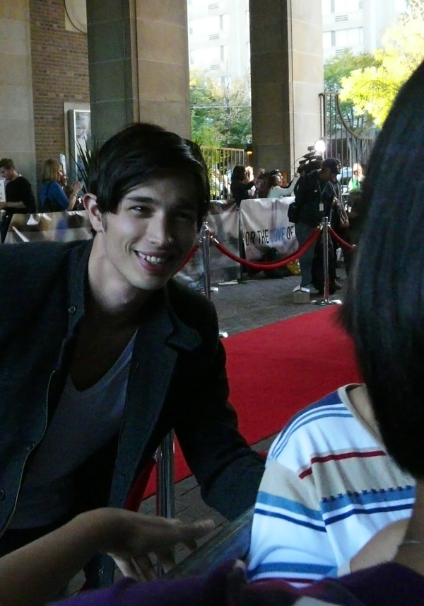 Check out More great pics and Video at